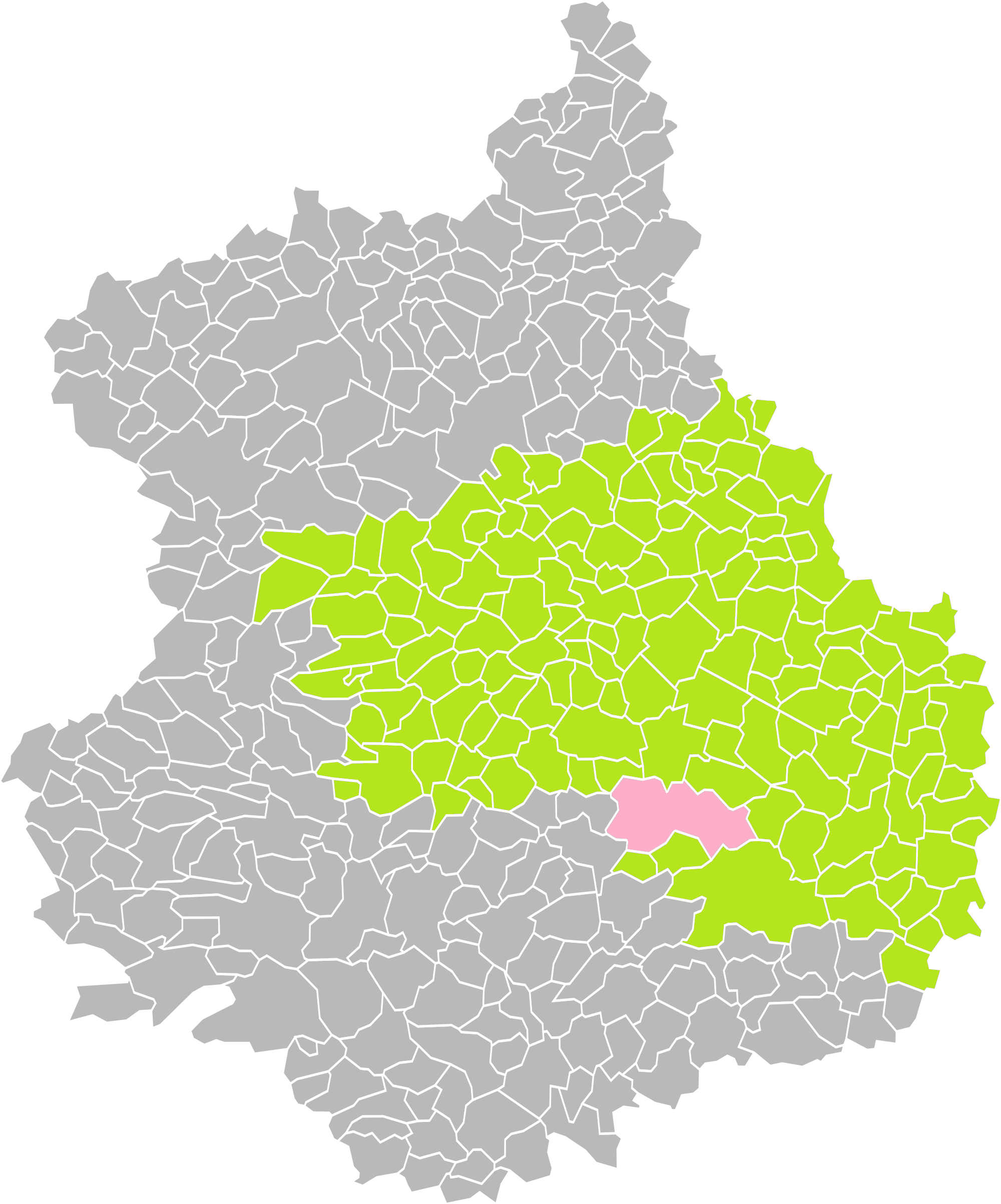 Location of the commune of Villages-Vovéens in the arrondissement of Chartres (Eure-et-Loir)